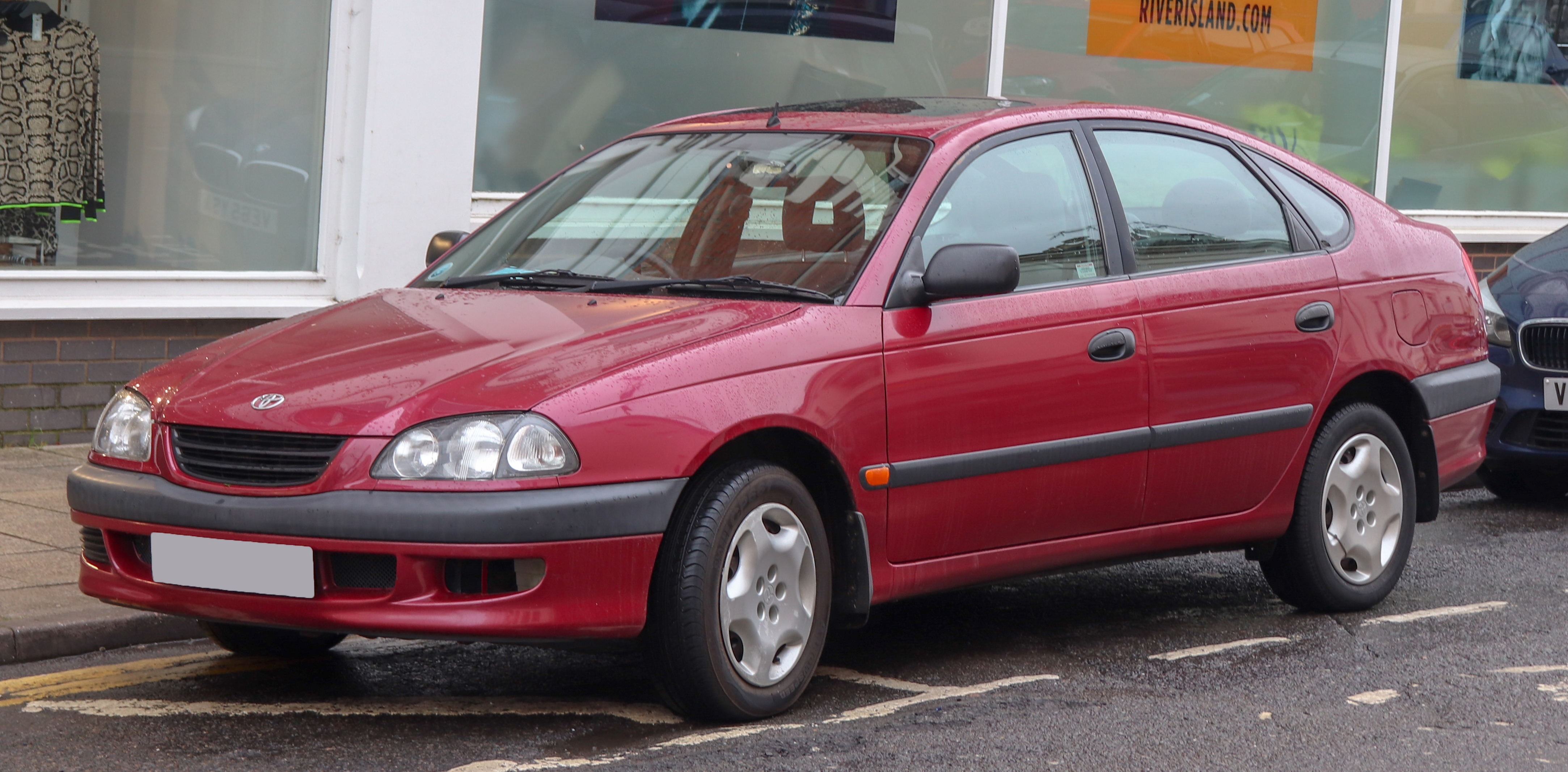 2000 Toyota Avensis GS 1.6 Front Taken in Leamington Spa